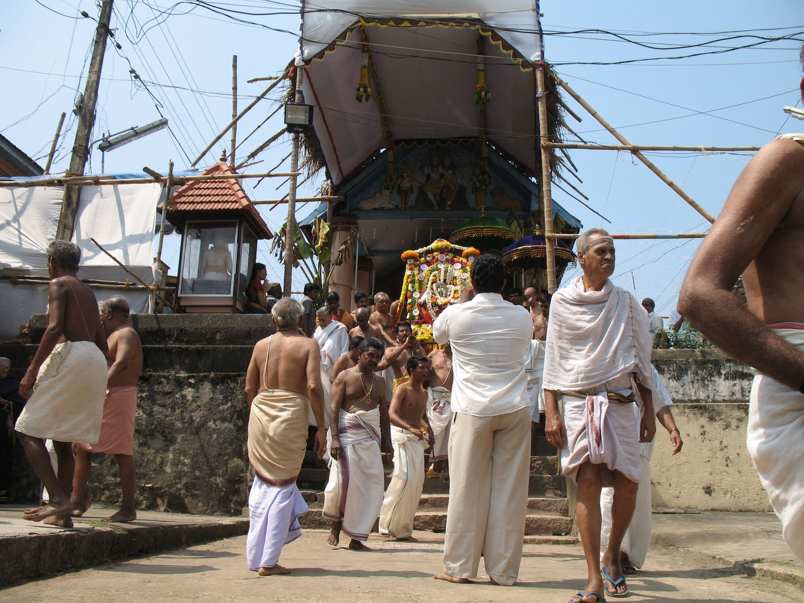 Paddy Iyer, Thaipoosam Vahanam